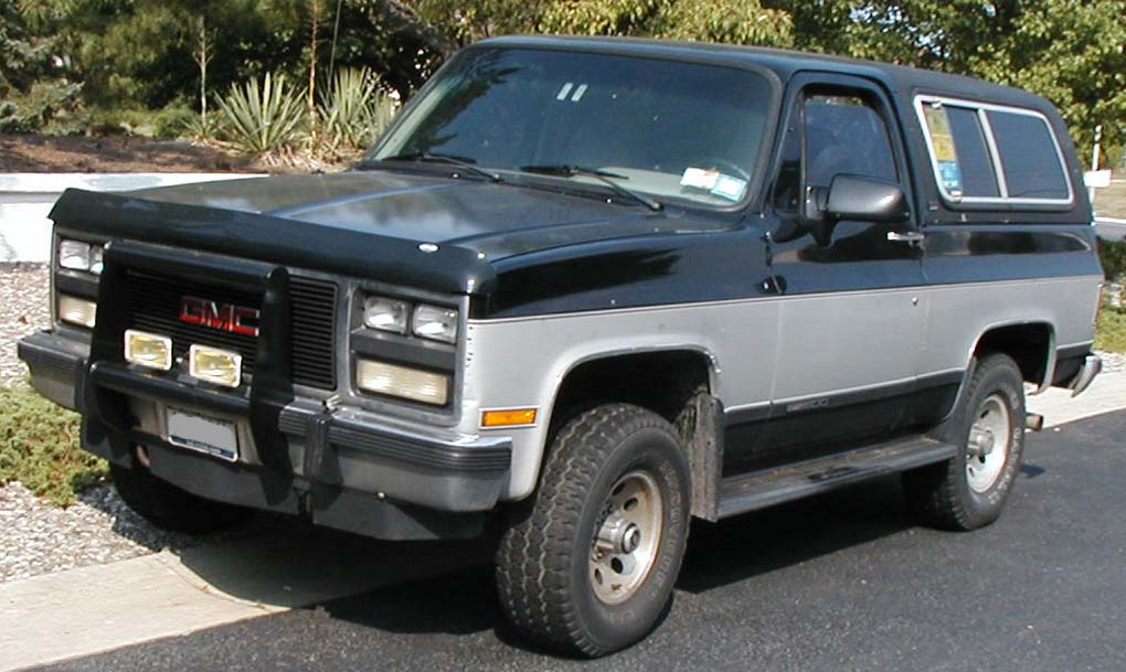 GMC K5 Jimmy photographed in USA.